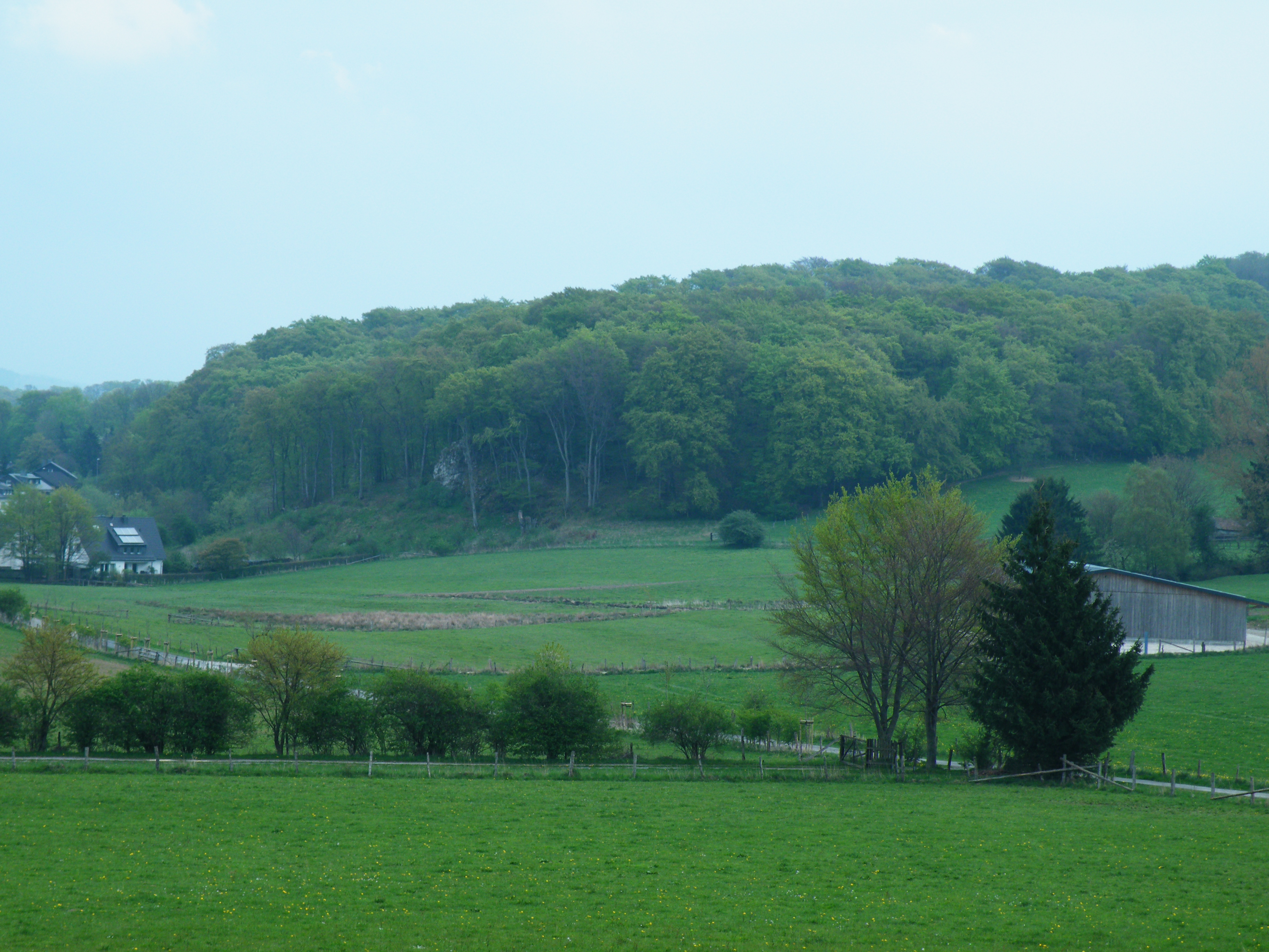 Naturschutzgebiet Derkerstein / Itzelstein am Südwestrand von Brilon von Nordwesten aus.